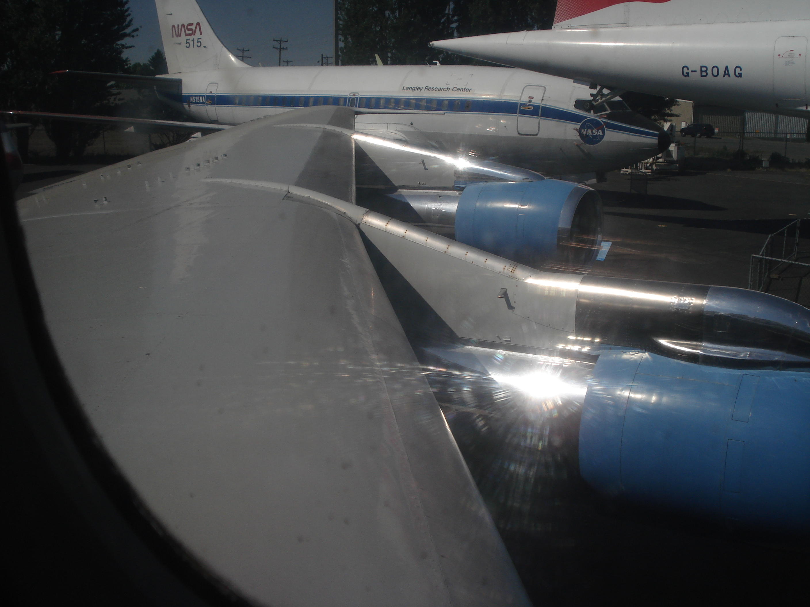 Photo taken at Seattle Museum of Flight. Wing of VC-137B, AF One 707-120B